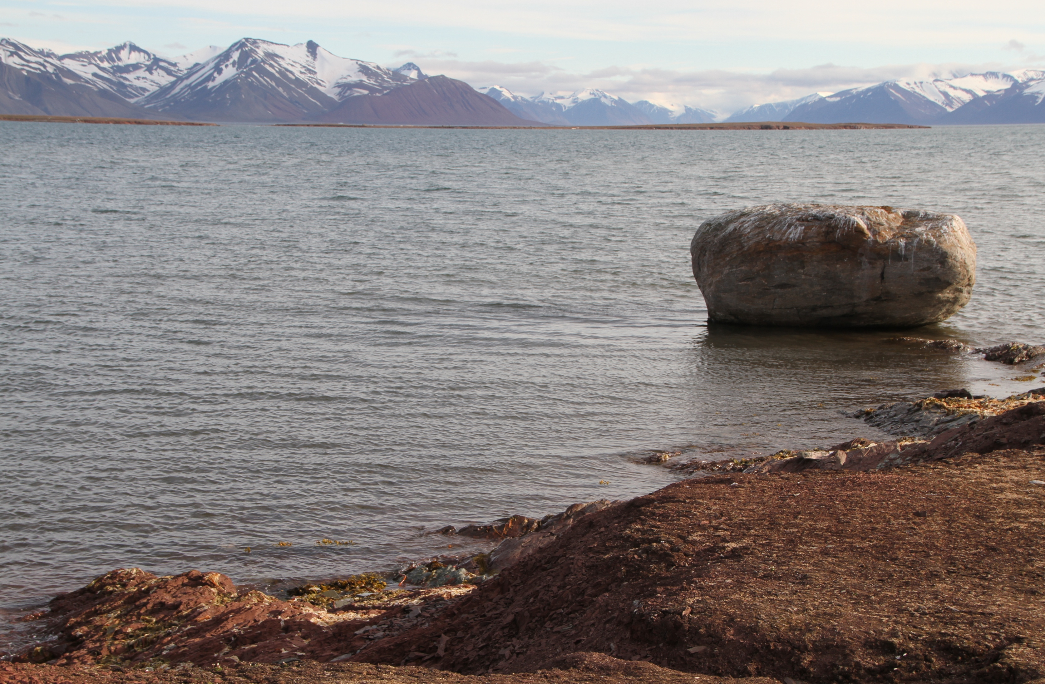 Photo from northeastern Albert I Land, northern Spitsbergen (Norway). Motive from Worsleyhamna, on southeastern Reinsdyrflya coastal plain.